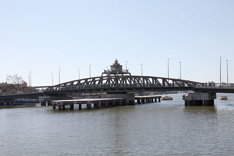 Old bridge, El-Ma'eini mosque, Dumyat, Egypt